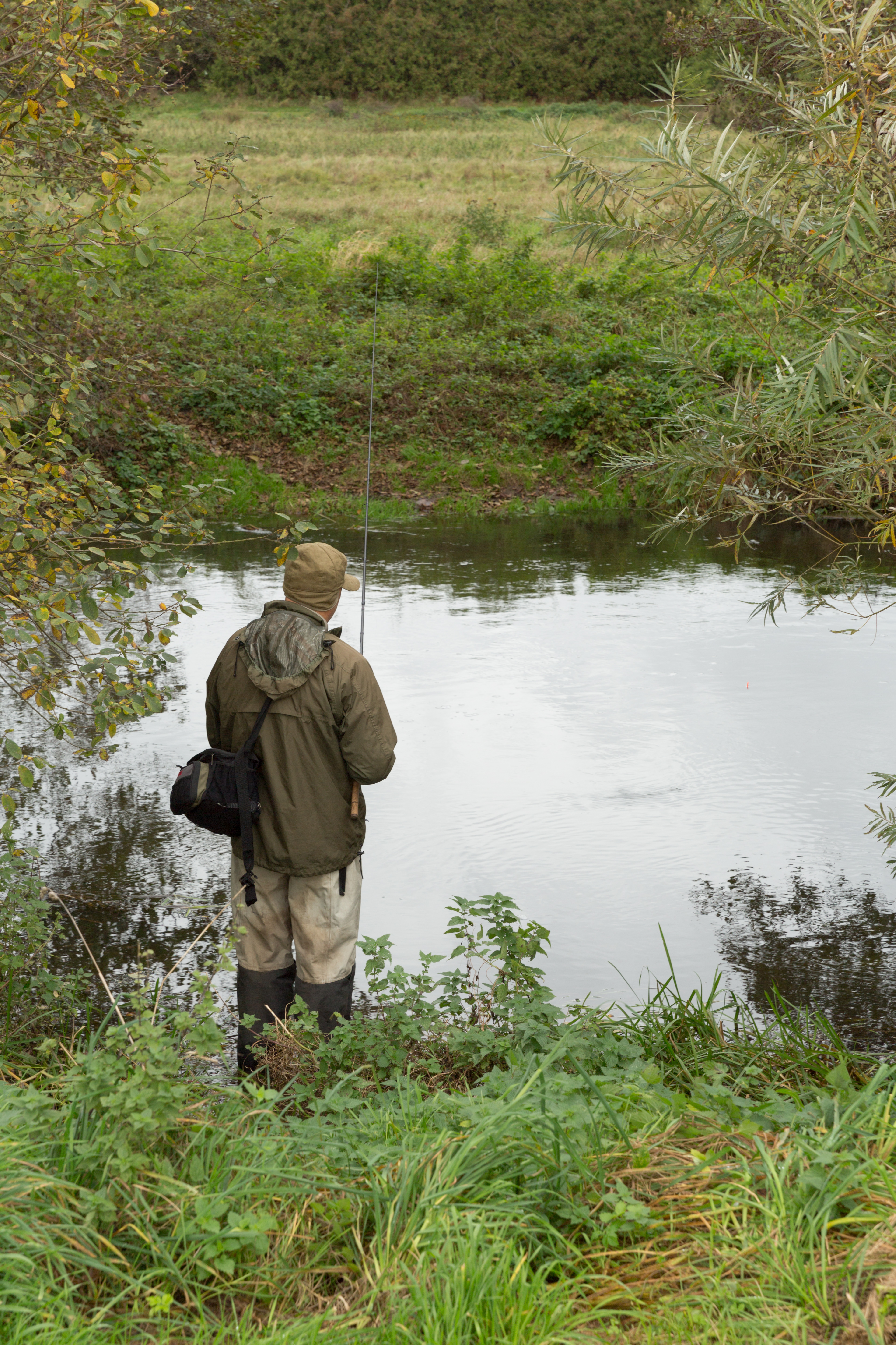 Angling at Lyngbygårds river north of Årslev Engsø